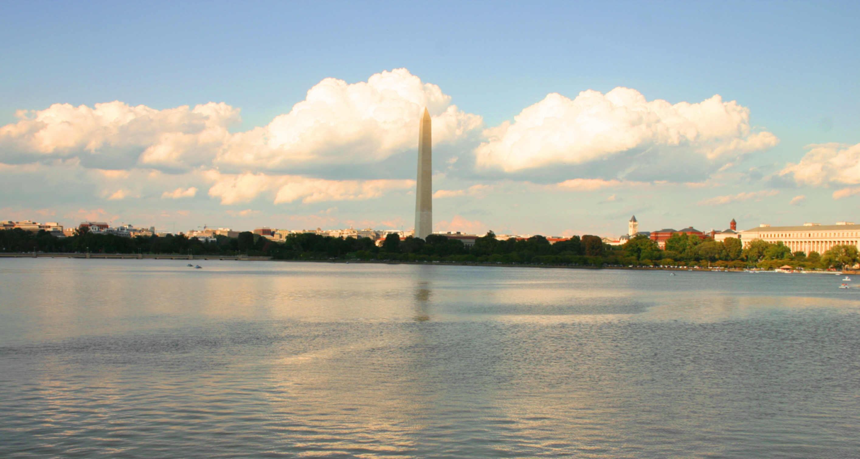 Washington Monument and the Tidal Basin in Washington, D.C.